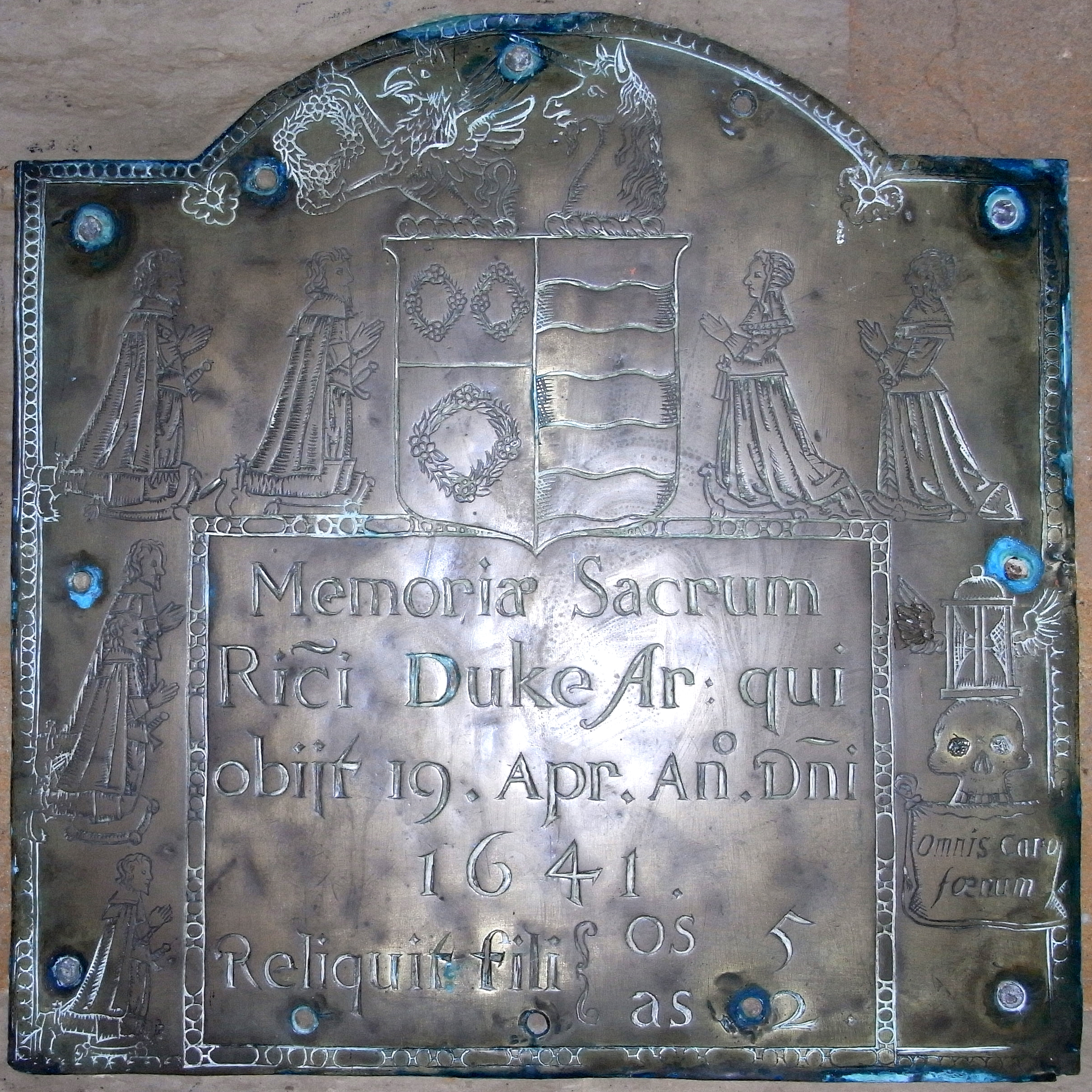 Monumental brass coffin plate of Richard III Duke (1567 – 19 April 1641), lord of the manor of Otterton, Devon. Otterton Church, now affixed to west wall, originally affixed to his coffin within the Duke family vault in the church (per church leaflet: the bones in the Duke vault were removed and buried in the graveyard in the 19th century). He married Margaret Bassett (d.1619), a daughter of Sir Arthur Bassett (1541–1586), MP, of Umberleigh, Devon. Inscription: Memoriae sacrum Ric(ard)i Duke Ar(migeri) qui obiit 19 Apr(ilis) An(n)o D(omi)ni 1641. reliquit filios 5, filias 2. ("Sacred to the memory of Richard Duke, Esquire, who died (on the) 19th of April in the year of our Lord 1641. He left sons 5, daughters 2"). At the top is an escutcheon with the arms of Duke impaling Basset, with the crests of the respective families above. On the left of the shield are shown the 5 sons, kneeling, and to the right the 2 daughters also kneeling. In the right margin, under a winged hourglass, is a human skull holding in its teeth a cloth inscribed: Omnis caro foenum ("All flesh is grass" (Isiah 40:6))